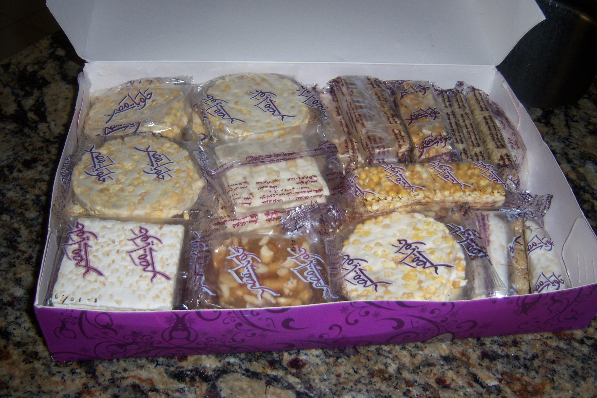 Sweets from Tanta